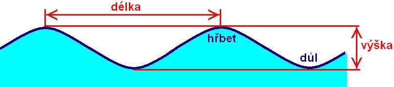 Description of water wave, simple picture, Czech legend